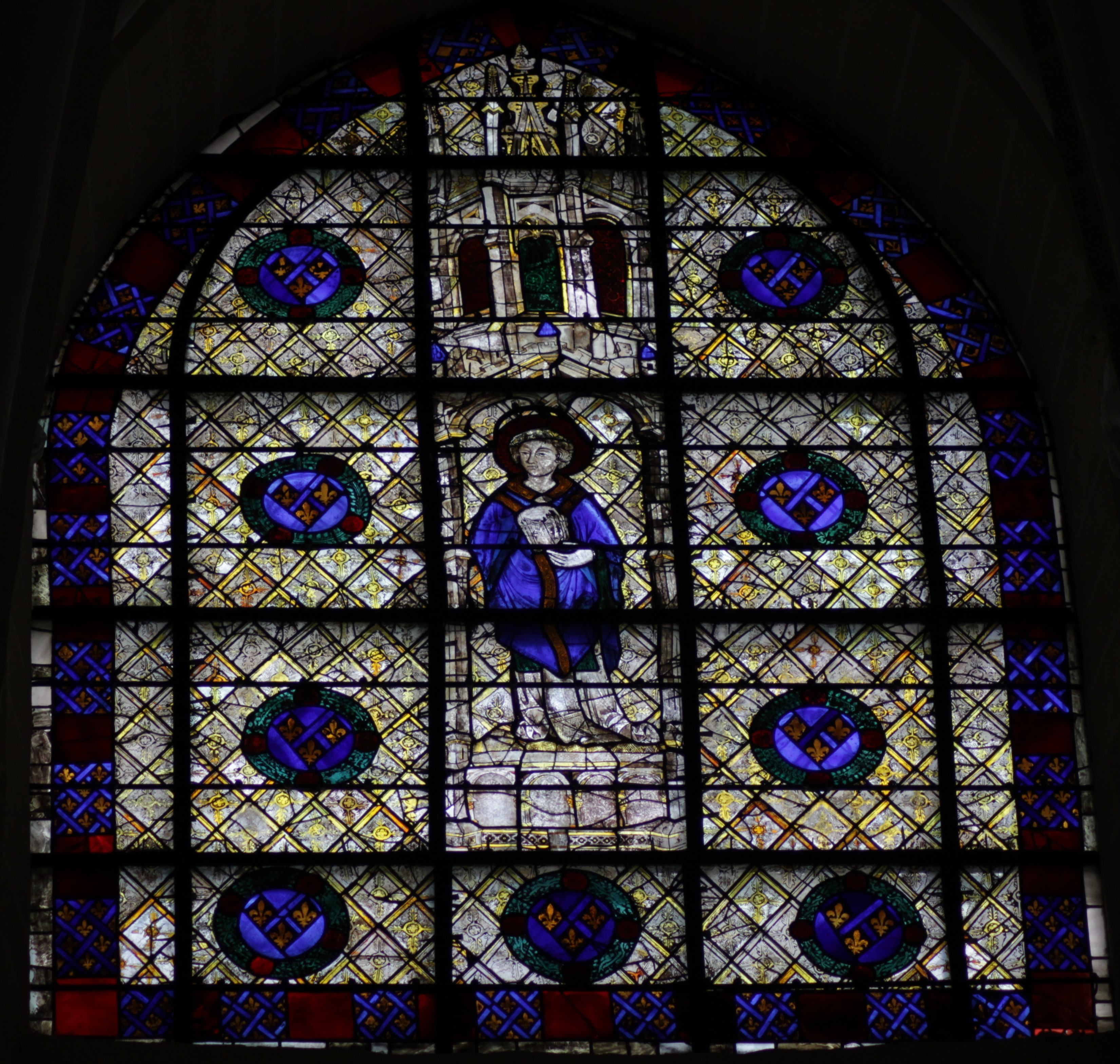 Stained window in Chartres cathedral - fragment.